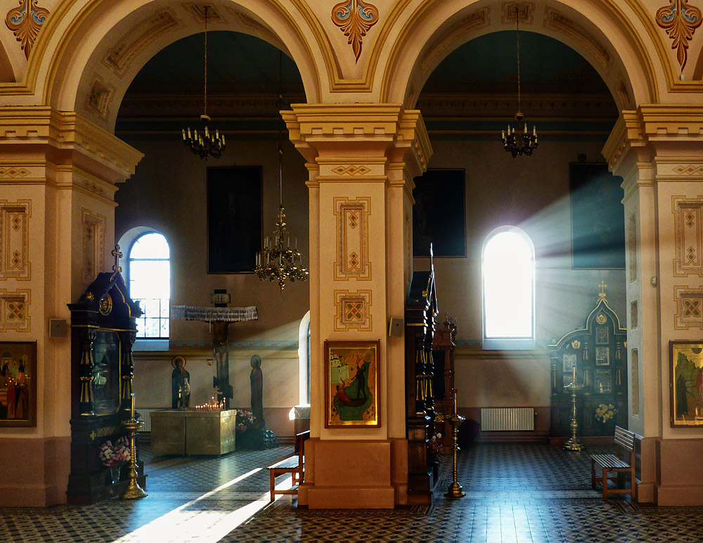 Press L to view large on black.